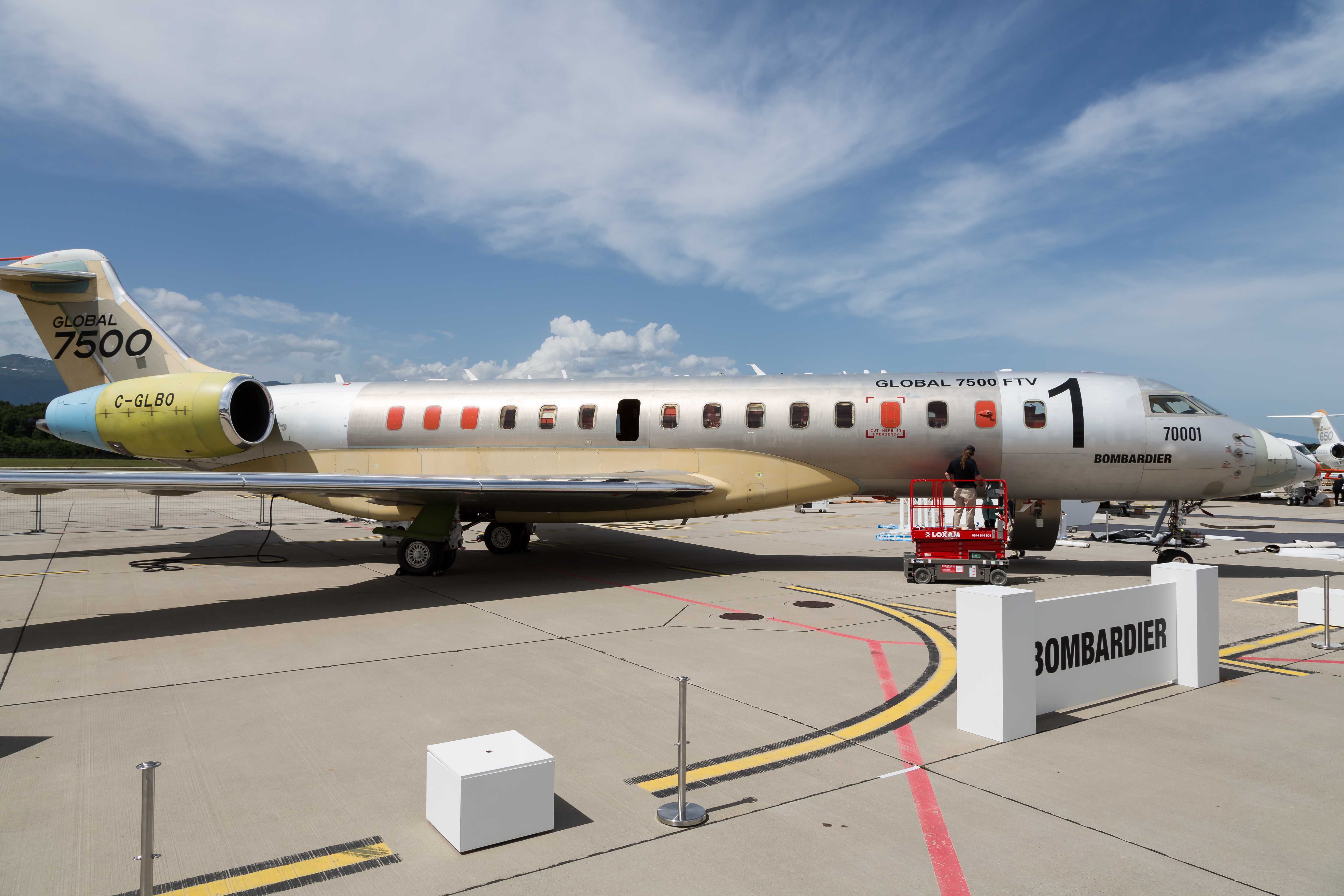 Static display preview, EBACE 2018